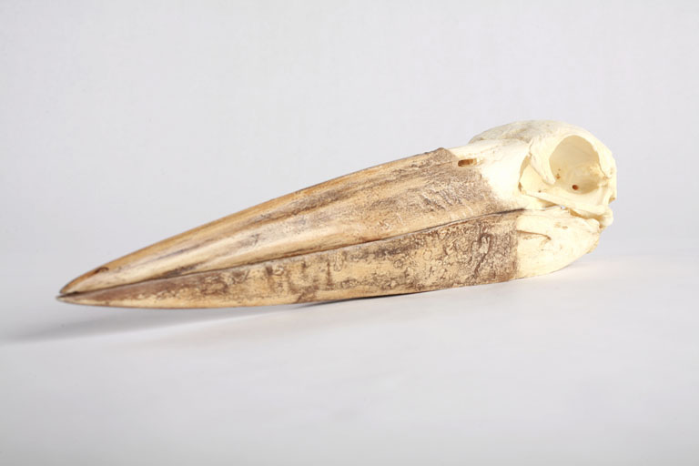 A Marabou stork skull cast in the permanent collection of The Children’s Museum of Indianapolis.